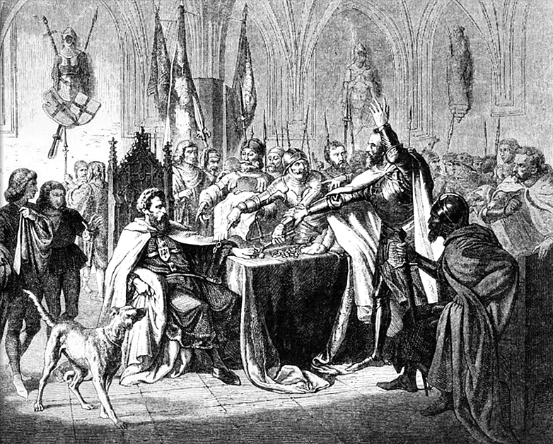 The Sale of the Castle of Marienburg in 1457 to King Casimir IV of Poland